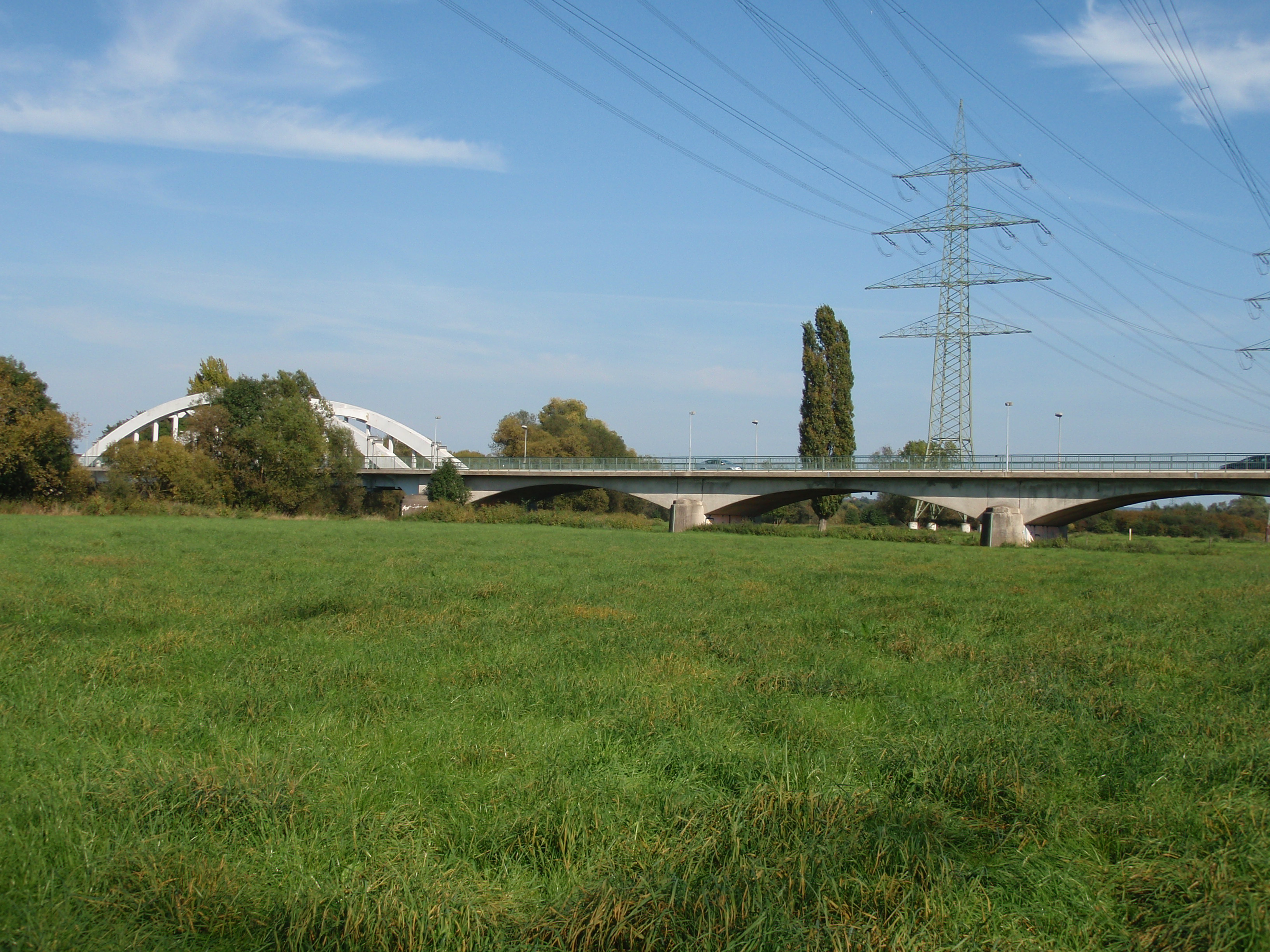 Photo of the western side of the bridge of L 143 over river Sieg between Sankt Augustin and Troisdorf, Germany, with foreshore bridge.